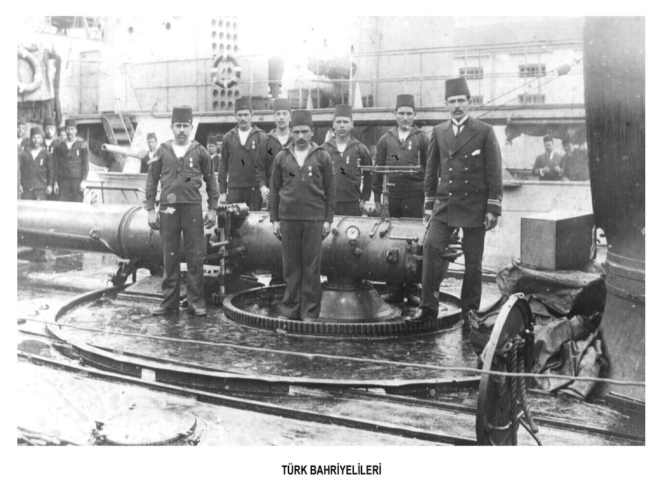 The torpedo crew of Muavenet-i Milliye in front of its 45 cm torpedo tube